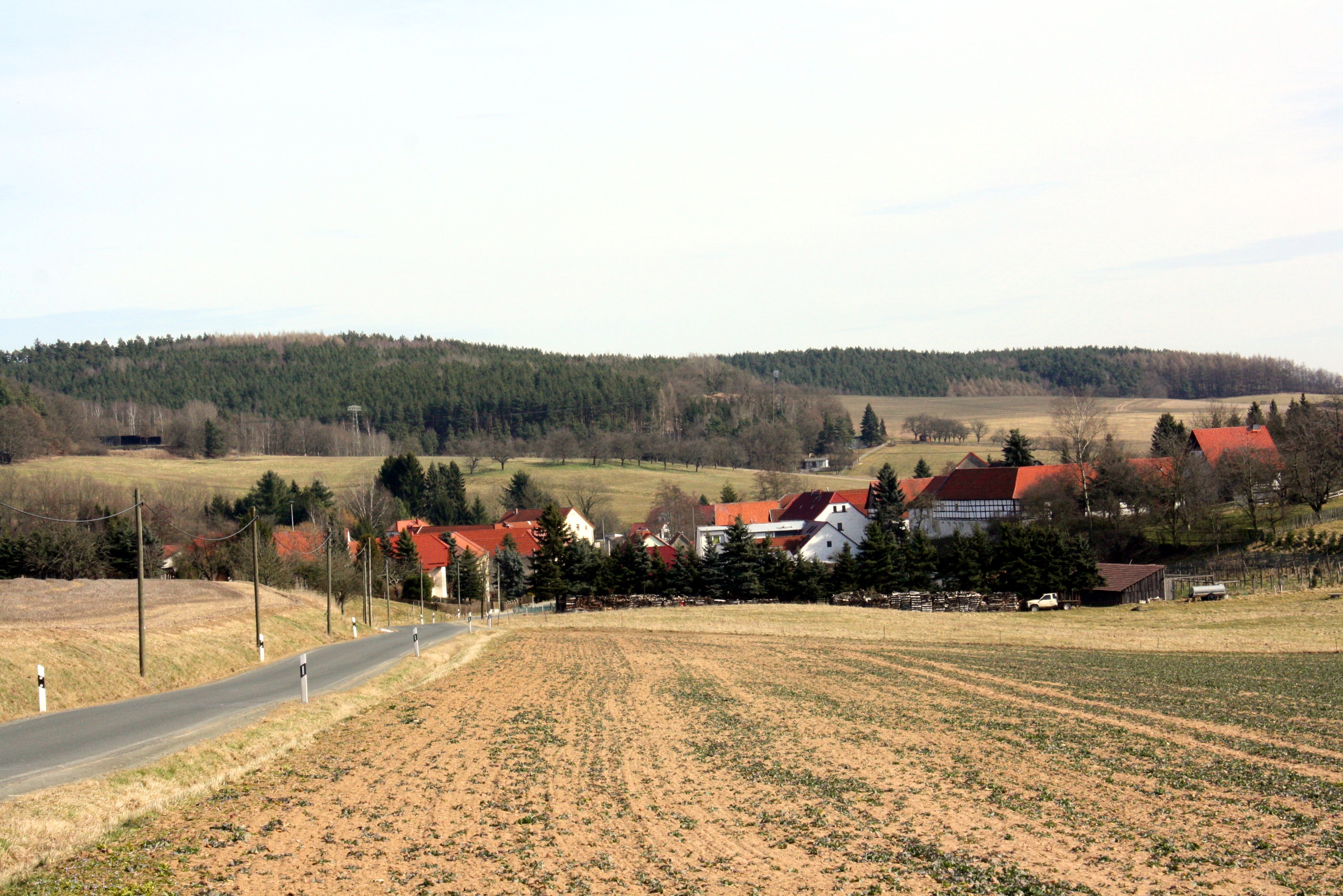 View over Zedlitz near Gera/Thuringia